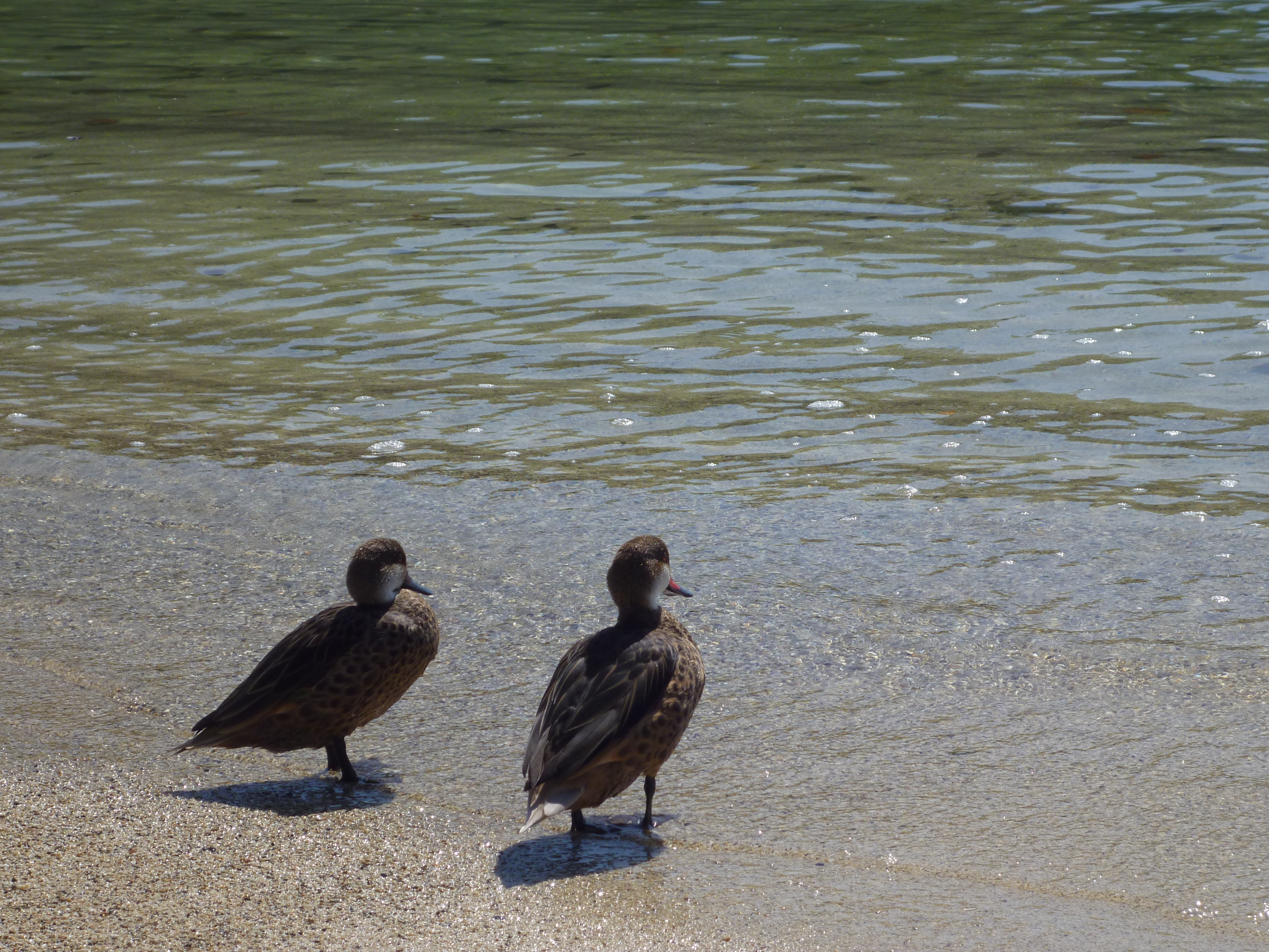 David Adam Kess took this photograph of two White-cheeked Pintails Anas bahamensis on the Galapagos island of Santa Cruz.